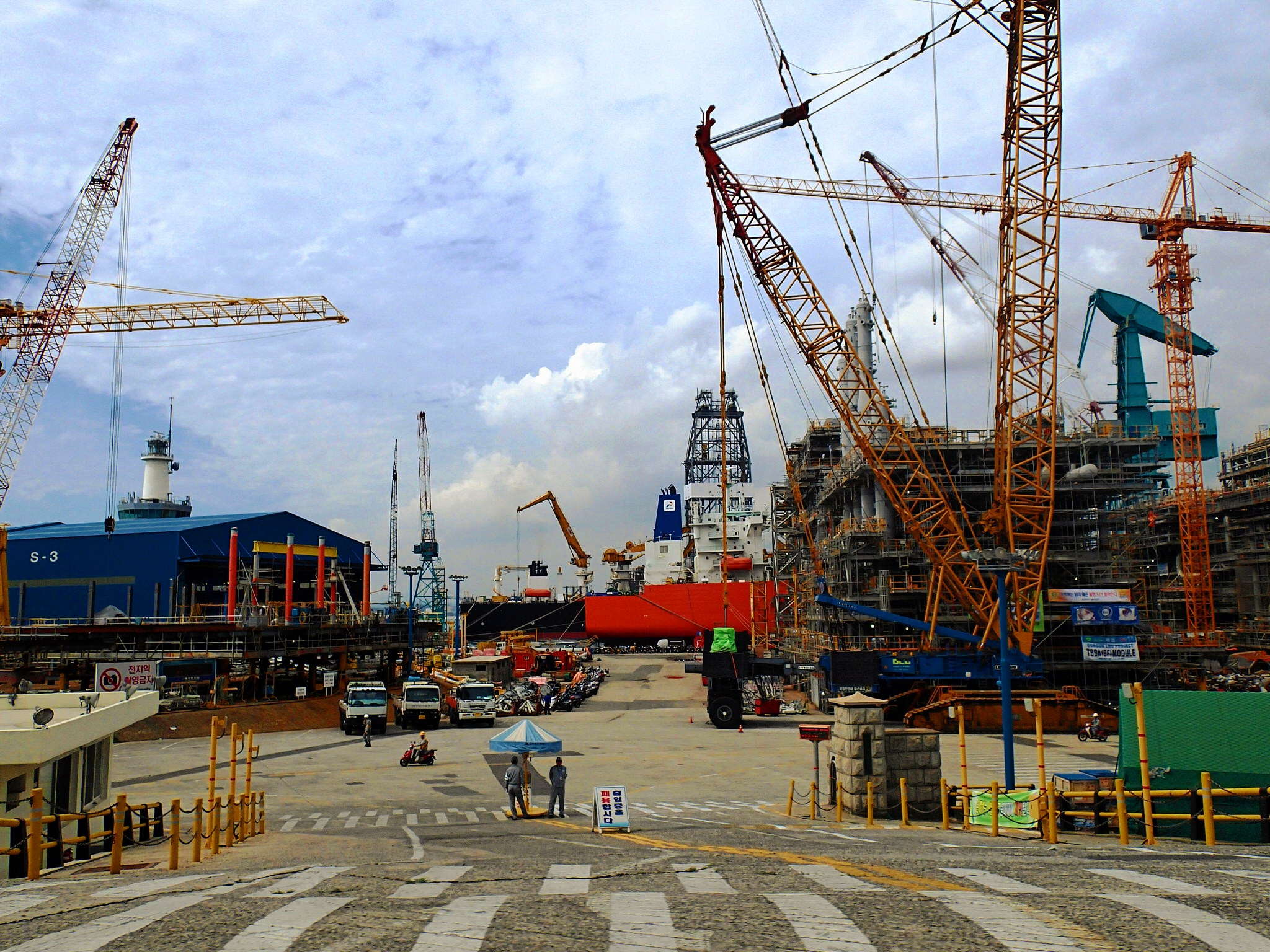 Hyundai Heavy Industries ship yard, South Korea